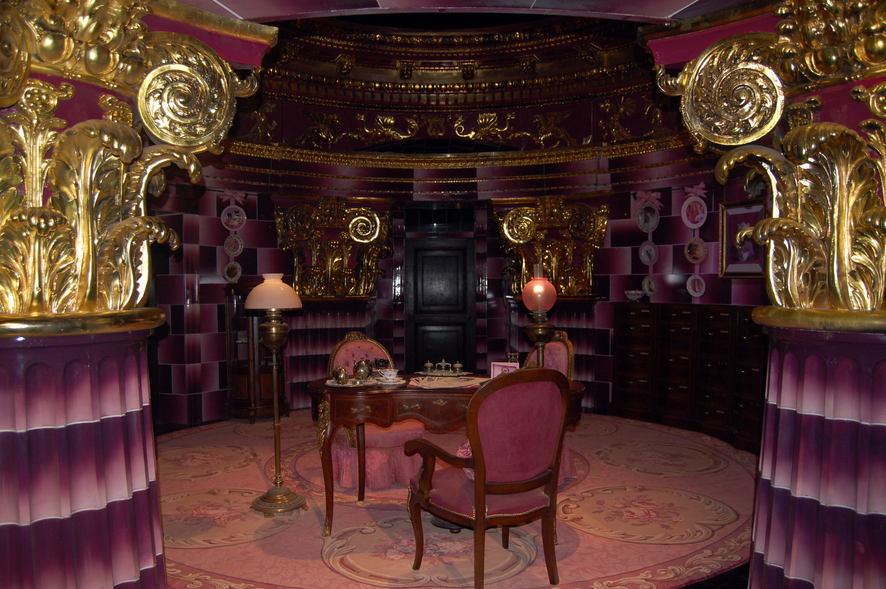 Umbridge's Ministry of Magic Office